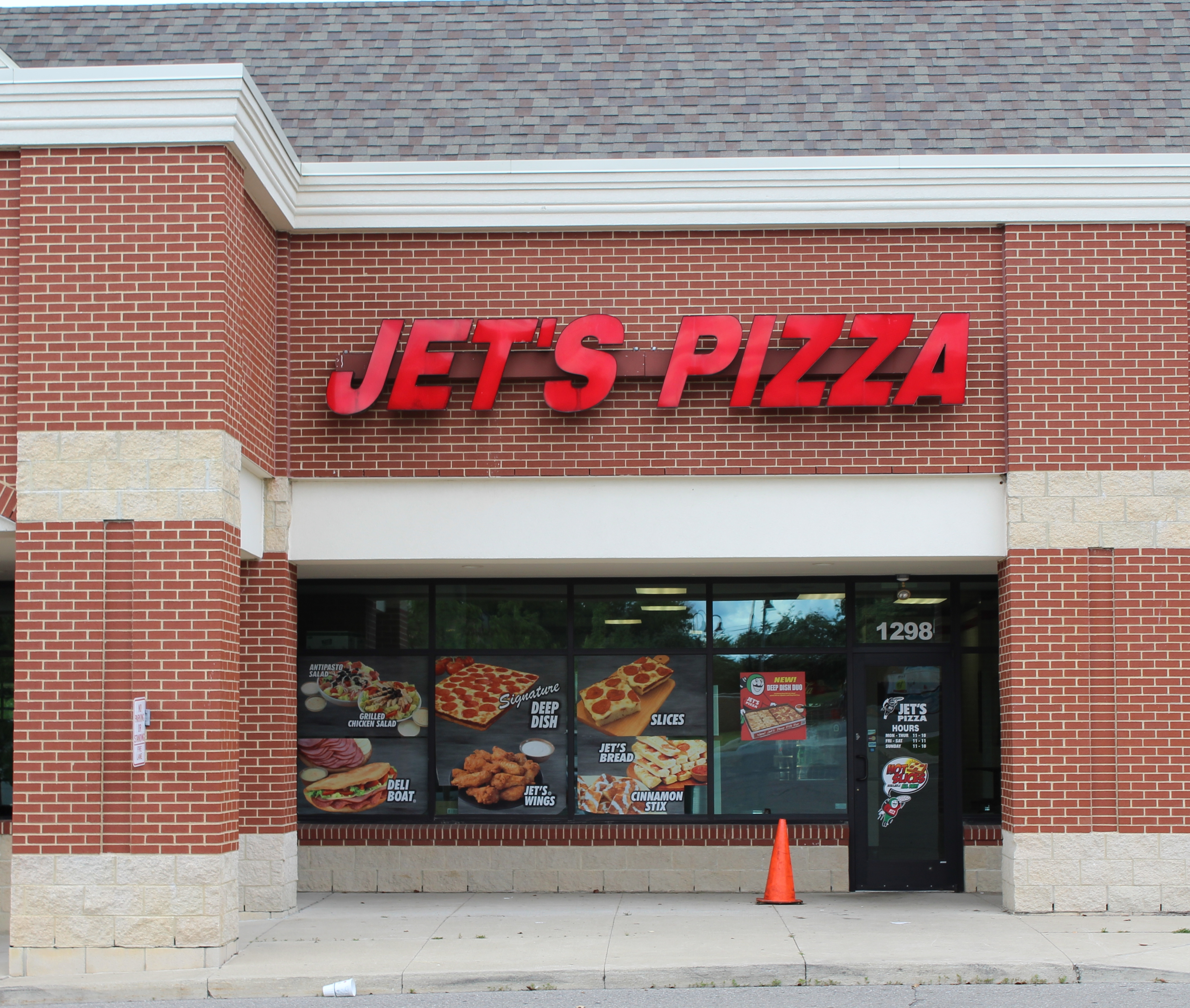 Jet's Pizza store, 1298 Anna J. Stepp, Ypsilanti Township, Michigan.